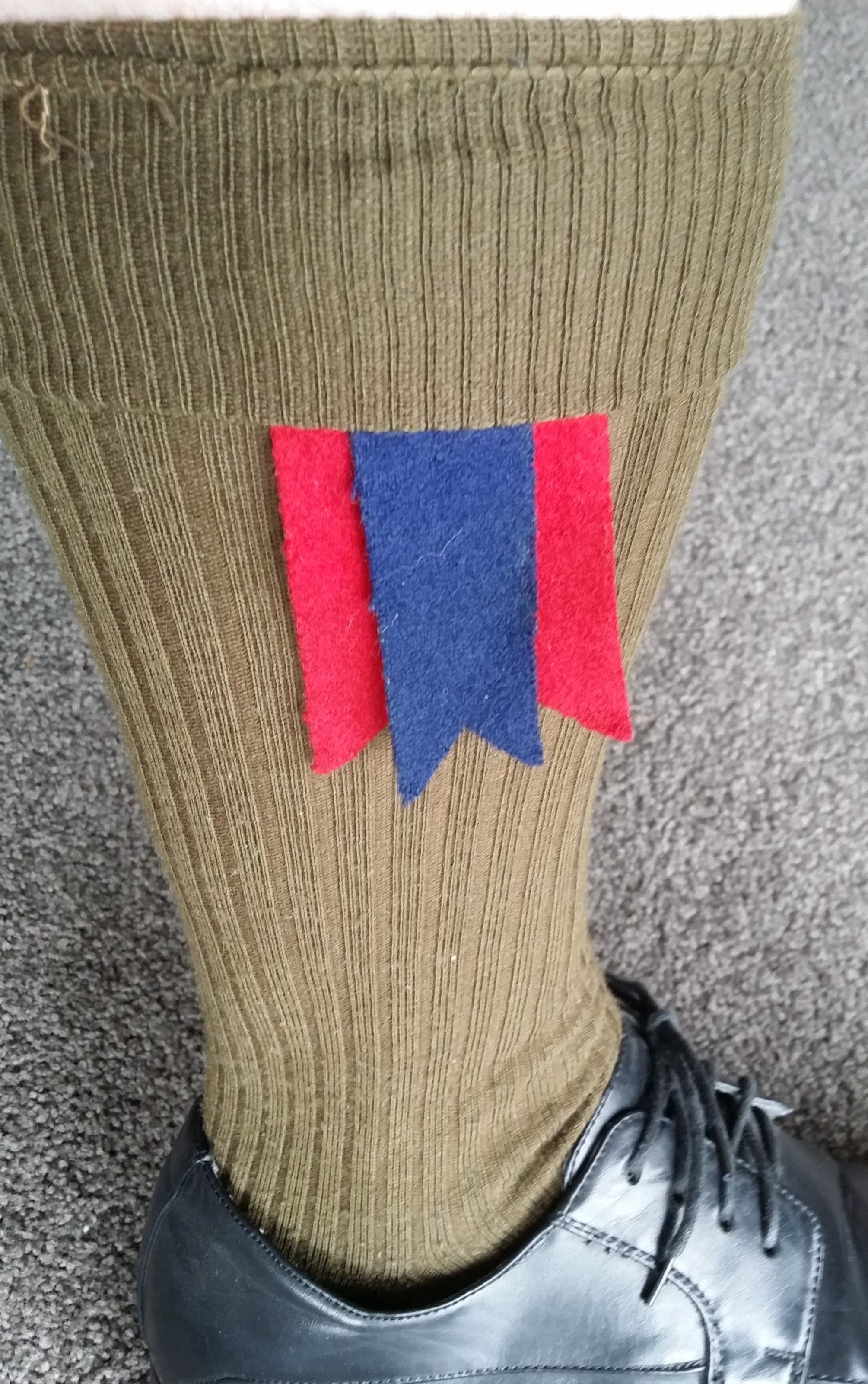 Garter Tabs - Also known as "woodchucks" Garter Tabs were worn with uniform shorts with the practical use of holding up knee high socks. Garter tabs also served the additional use of identifying the unit that the wearer belonged to. This example is of RNZAOC Garter Tabs.